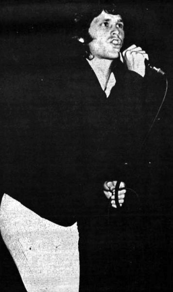 Photo of Jim Morrison of The Doors performing from the publication KRLA Beat. The paper was produced by KRLA Radio in Los Angeles.